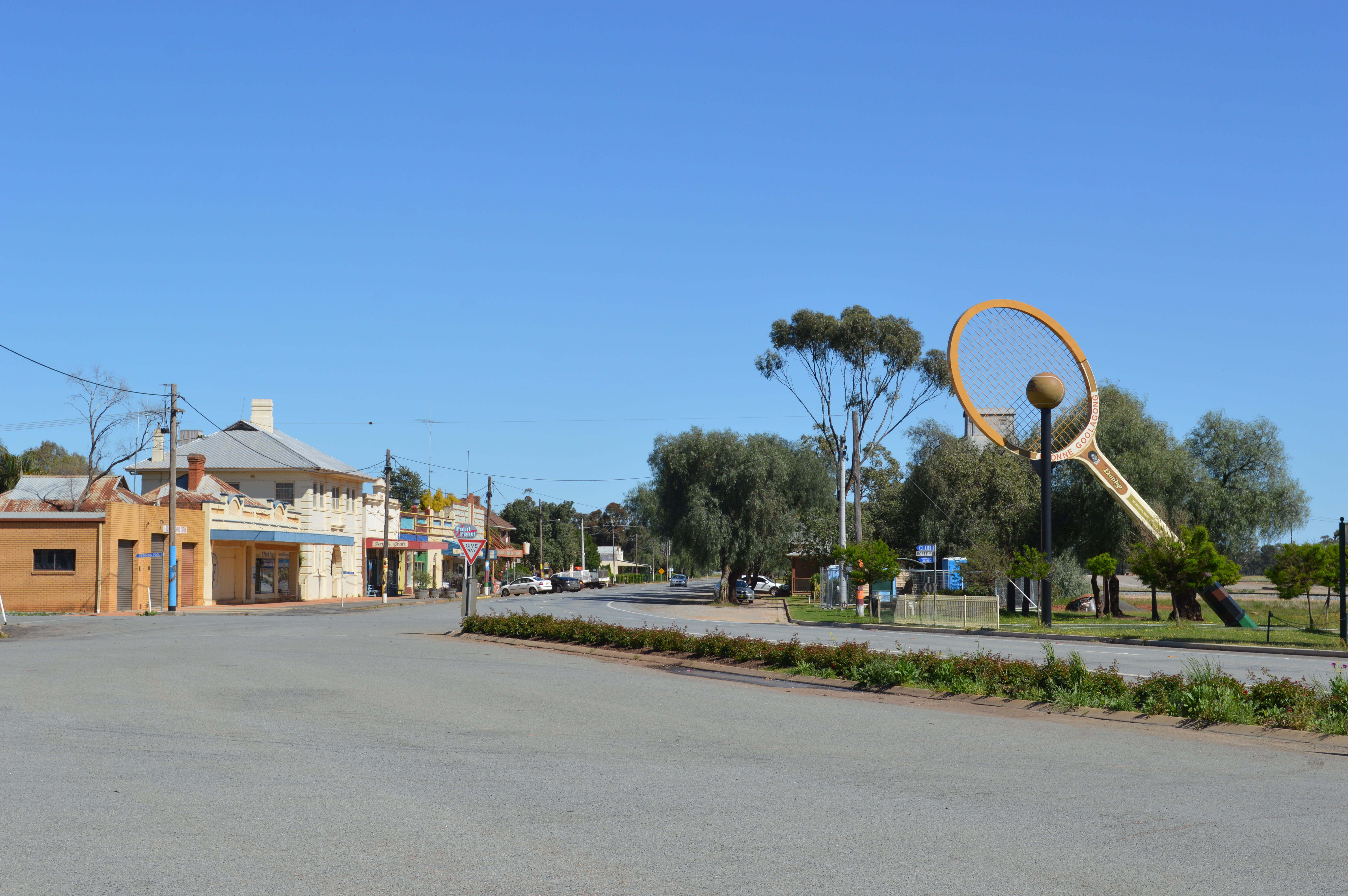 Yapunyah St (Burley Griffin Way), the main street of Barellan, New South Wales